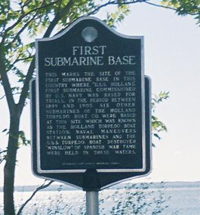 Historic Landmark in New Suffolk, New York boasting of the United States of America's first submarine base.